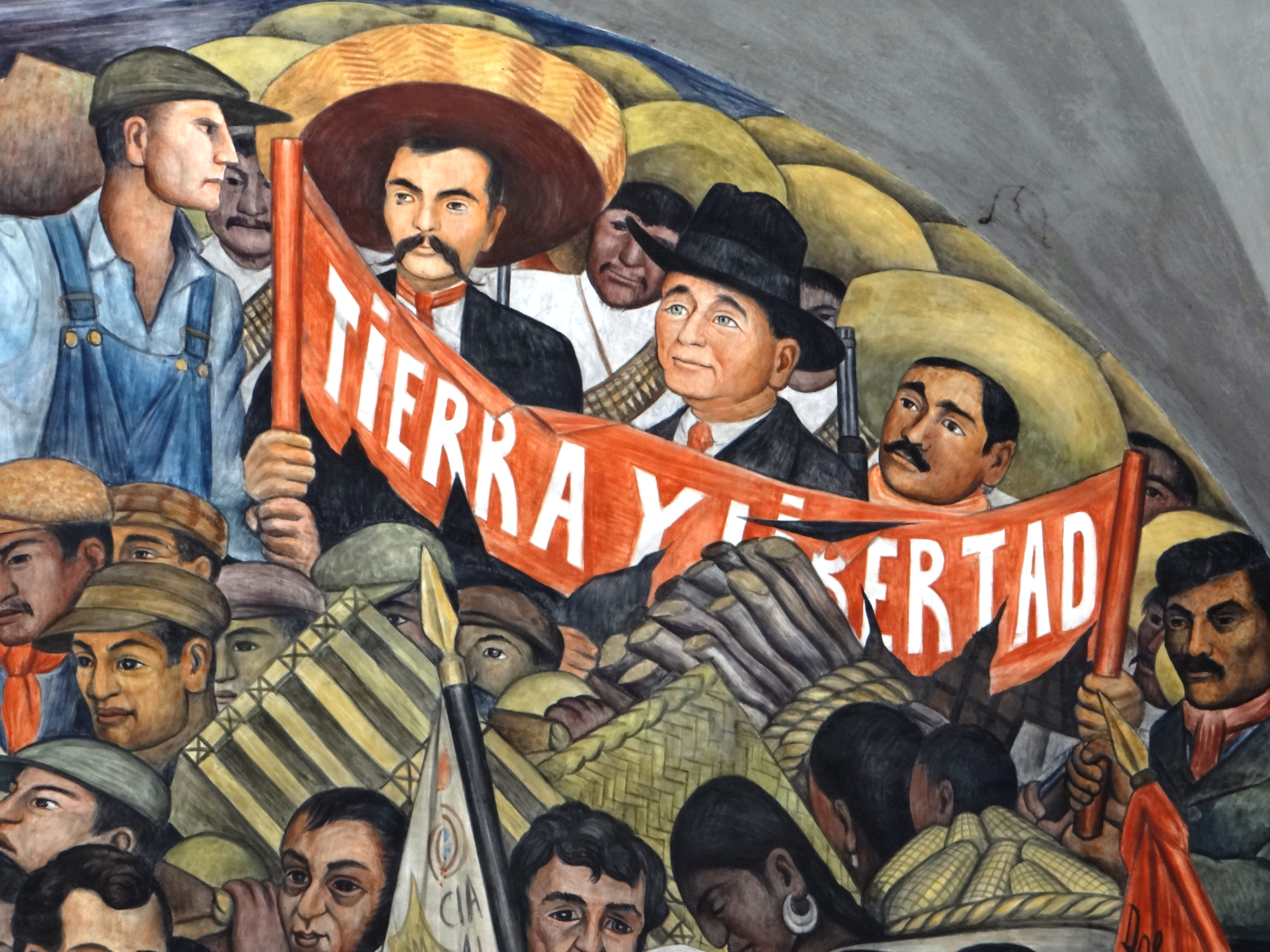 Part of Diego Rivera's "History of Mexico" mural at the National Palace in Mexico City. The cropped portion features the images of Emiliano Zapata (left with sombrero), Felipe Carrillo Puerto (center), and José Guadalupe Rodríquez (right with sombrero) behind banner featuring the Zapatista slogan, Tierra y Libertad (Land and Liberty).